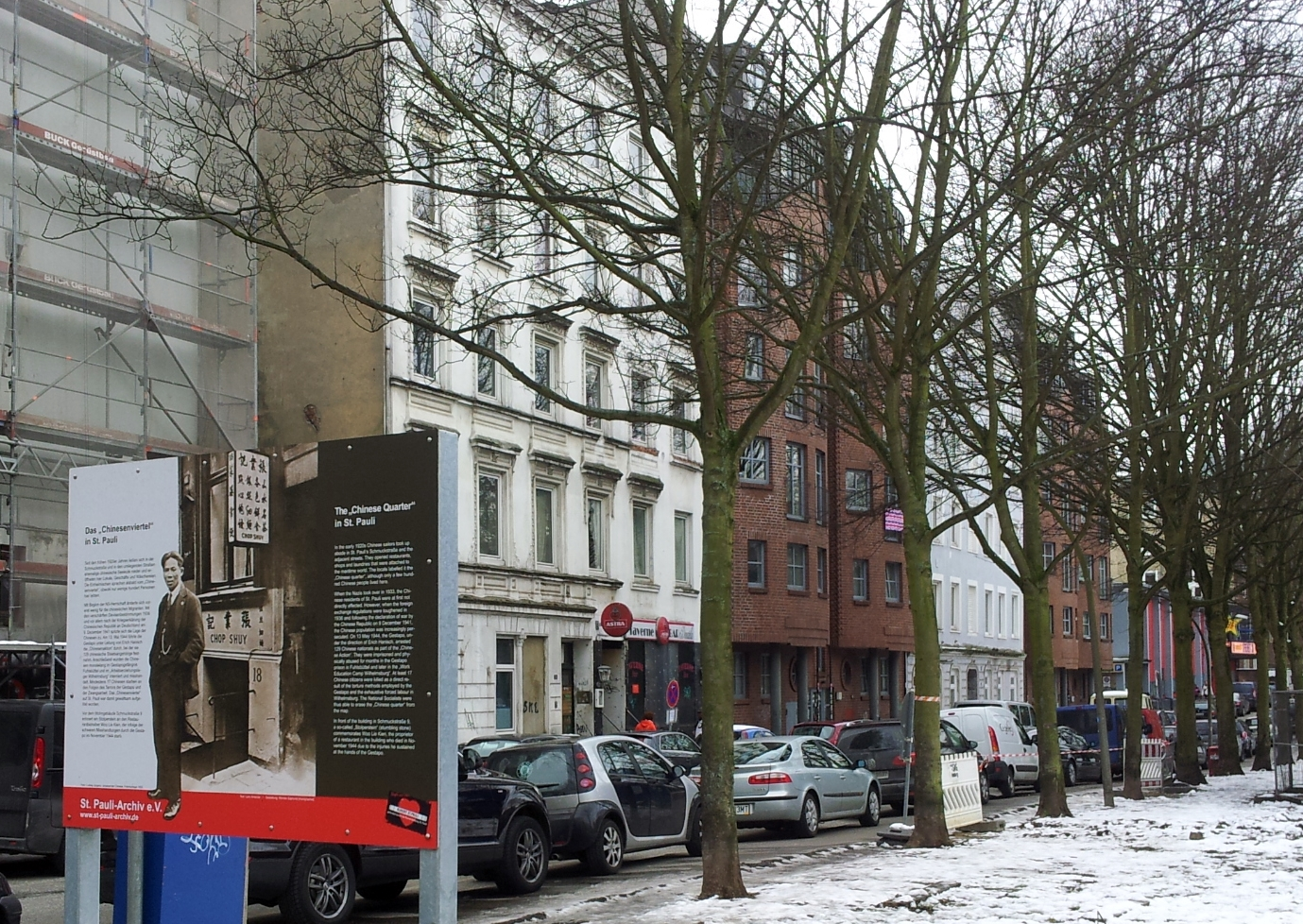 Chinatown in Hamburg St. Pauli